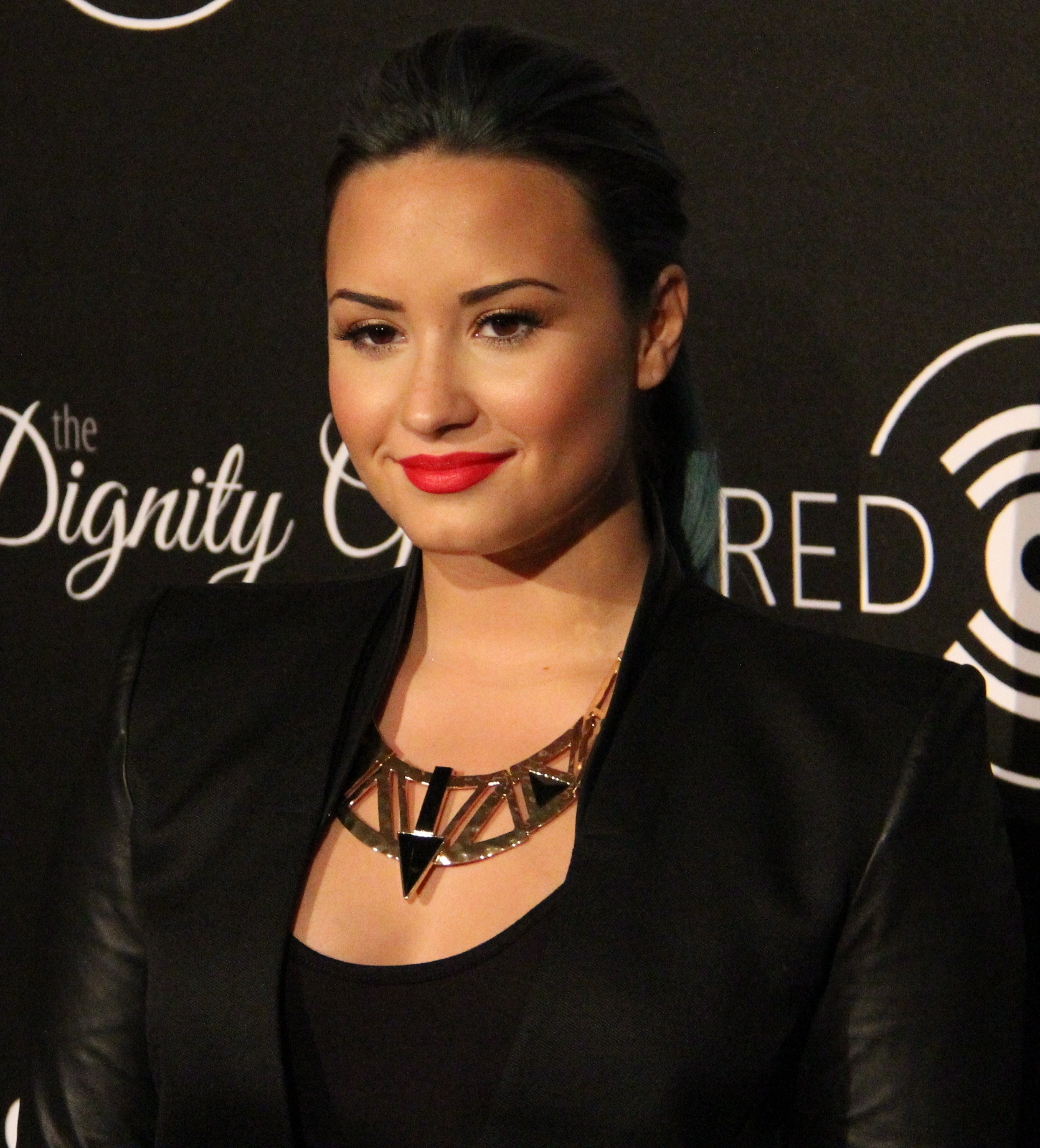 Demi Lovato ("The X Factor") at Redlight Traffic's inaugural Dignity Gala (Michelle Tiu / Neon Tommy).